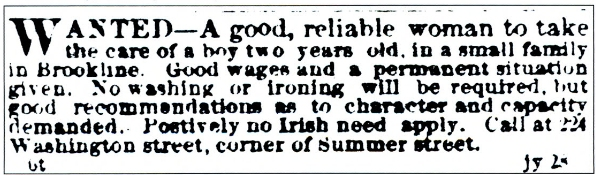 Advertisement for a nanny that appeared in the Boston Transcript in 1868, stating "Positively no Irish need apply." Reprinted in "A Journey Through Boston Irish History" by Dennis P. Ryan, Arcadia Publishing, 1999.